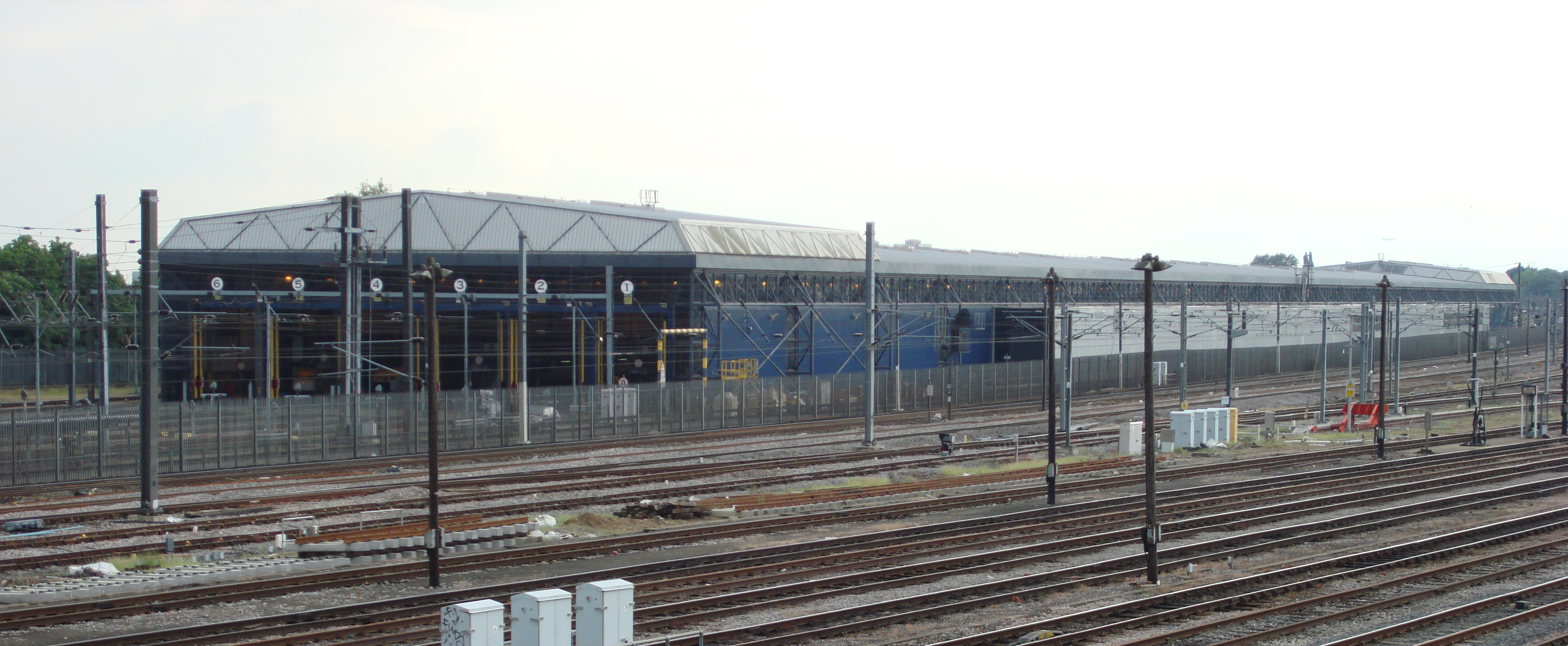 One of the buildings designed for the quater of a mile long Eurostar train at North Pole depot.